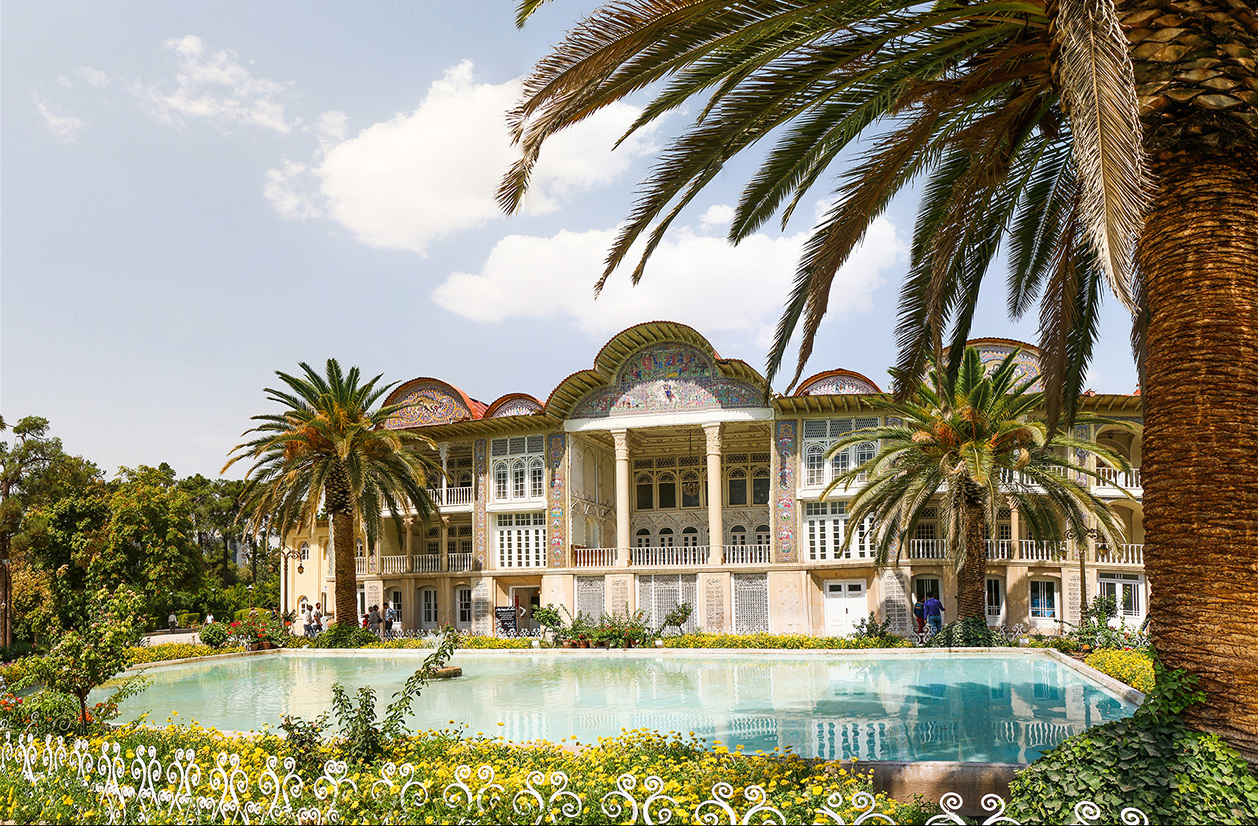 A beautiful old garden